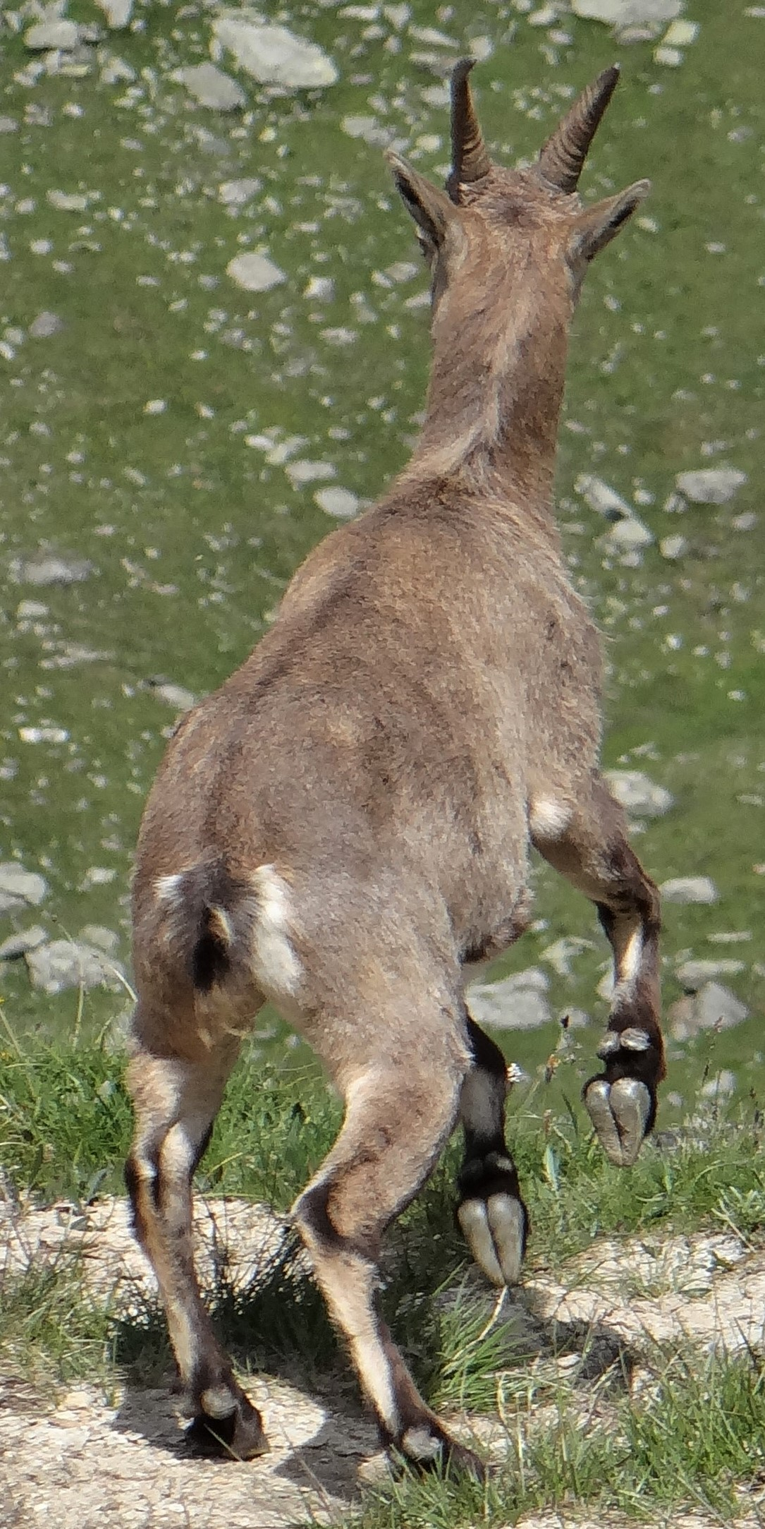 Ibex in the Cirque du Rosoire (around 2500 m), under the Col d'Aussois, Vanoise Park, summer 2019